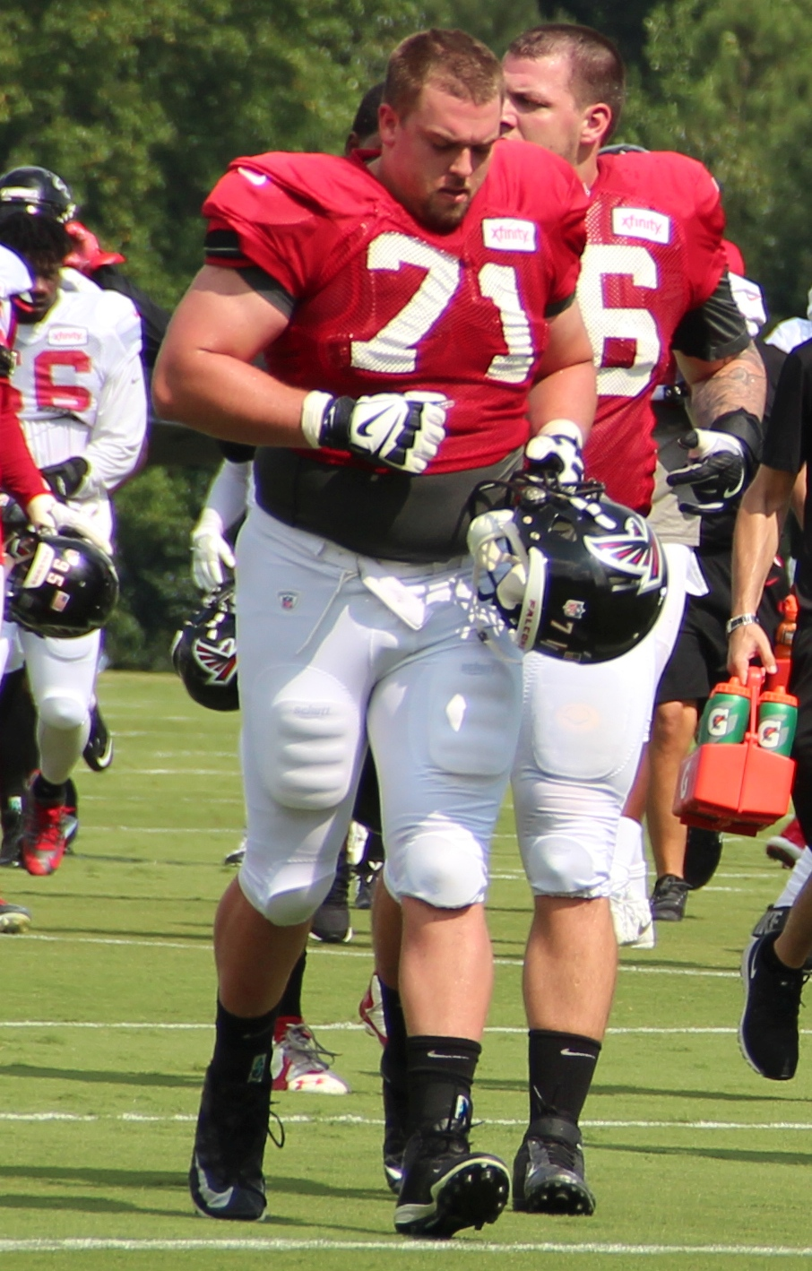 Wes Schweitzer at training camp, 2016